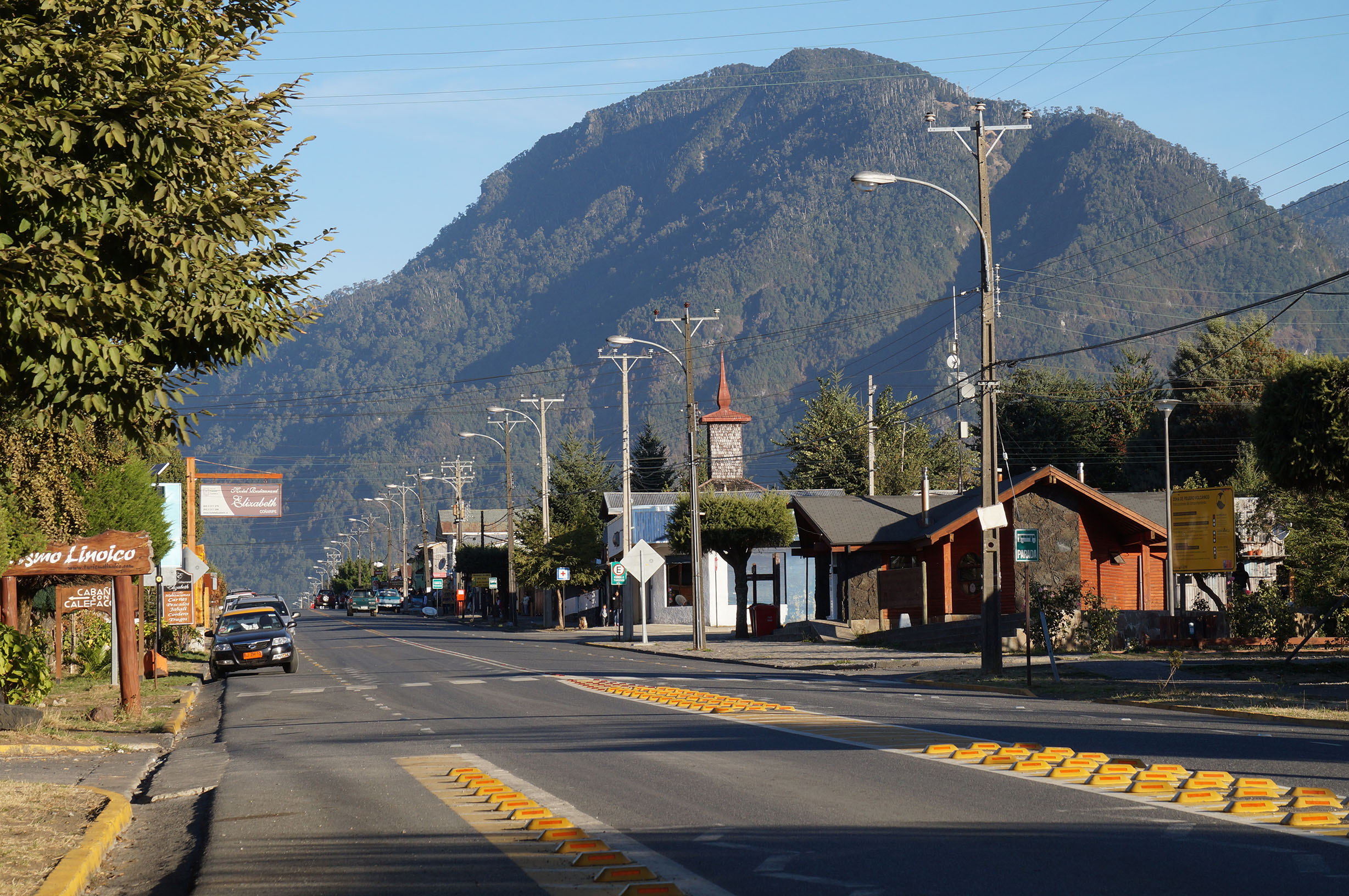 Downtown and Main Square of Coñaripe, Región de los Ríos, Chile